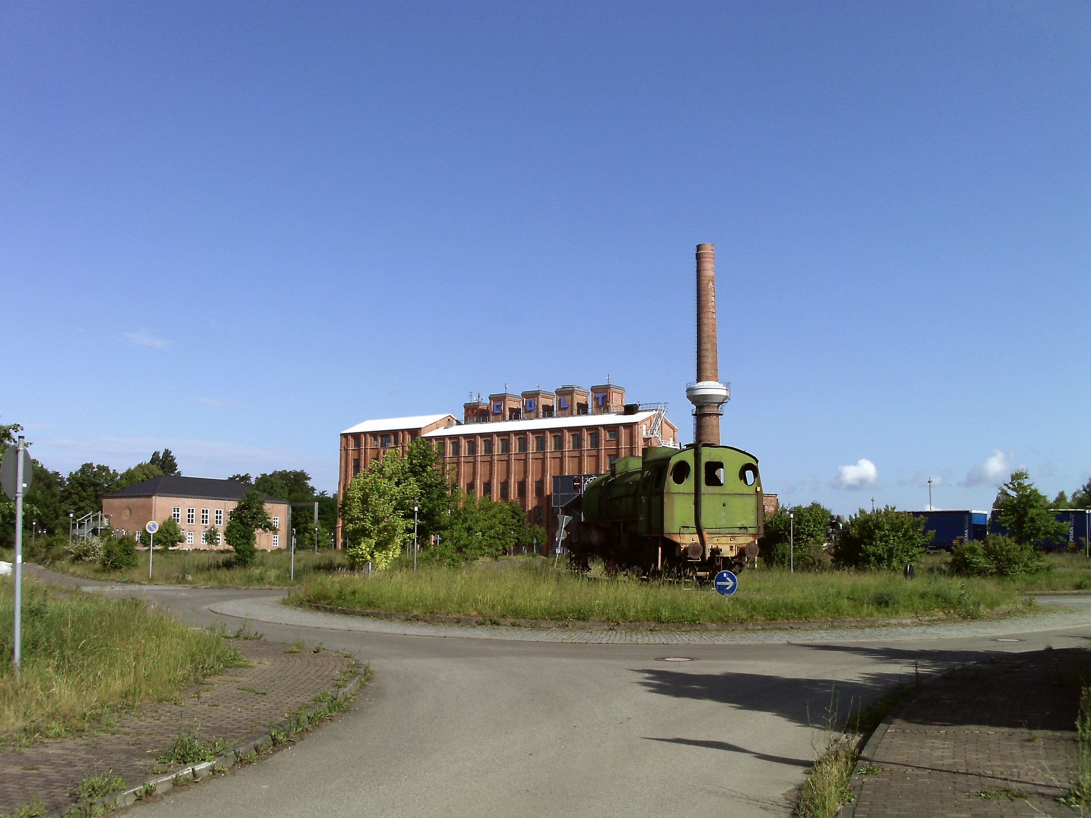 Former briquette factory in Neukirchen (Borna, Leipzig district, Saxony), now sports and leisure centre "Terra Cultura"